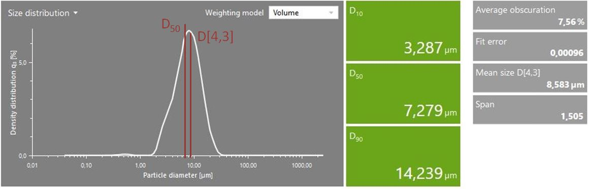 While the undersize D50 value is more often used and better understood, the De Brouckere Mean provides a more sensitive measure for single parameter analysis of particle size distributions in the quality control step of production.